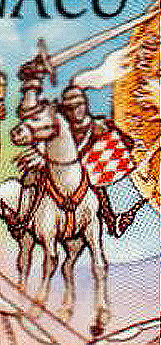 Charles I of Monaco